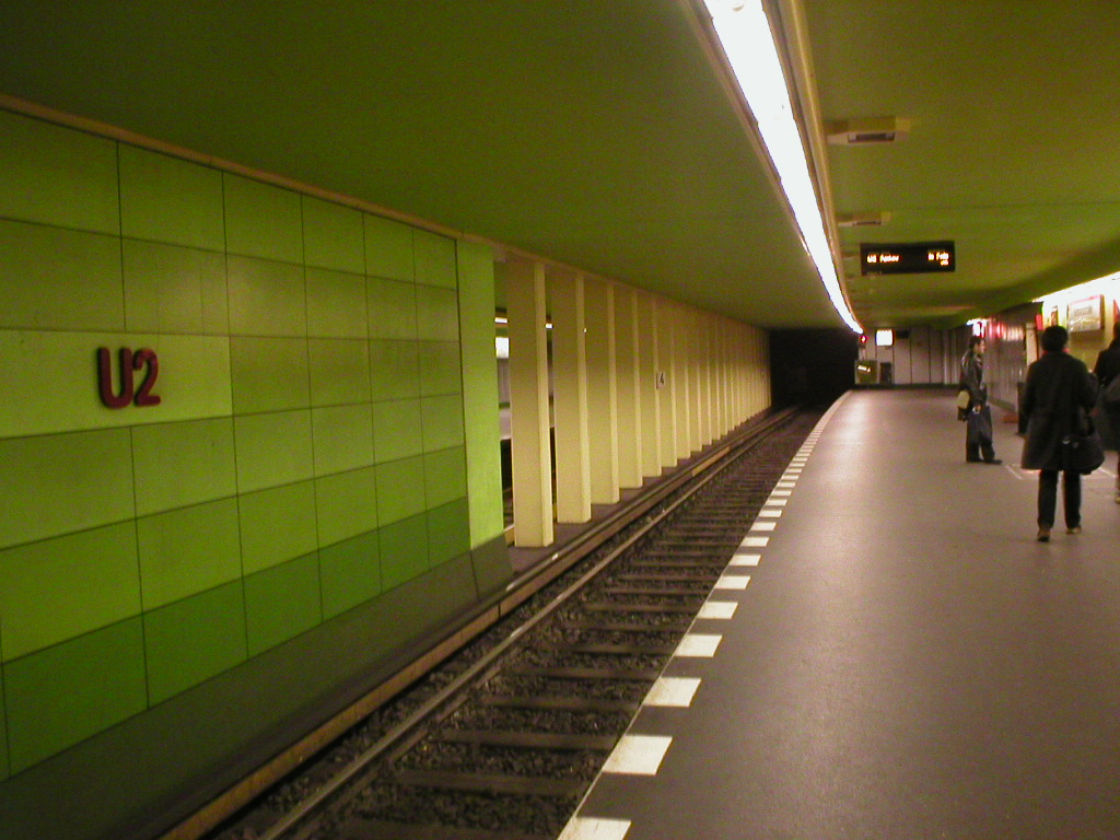 The station Bismarckstraße of the Berlin U-Bahn, line U2